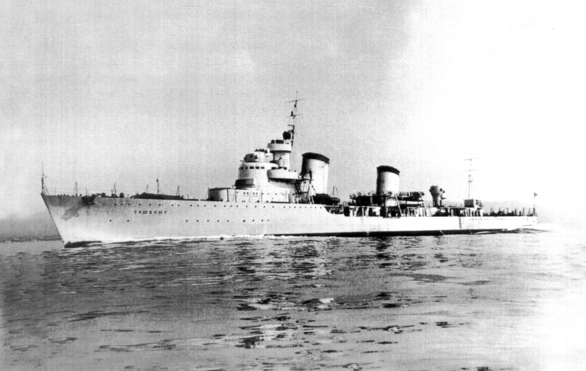 Tashkent on her manufacturer's sea trials